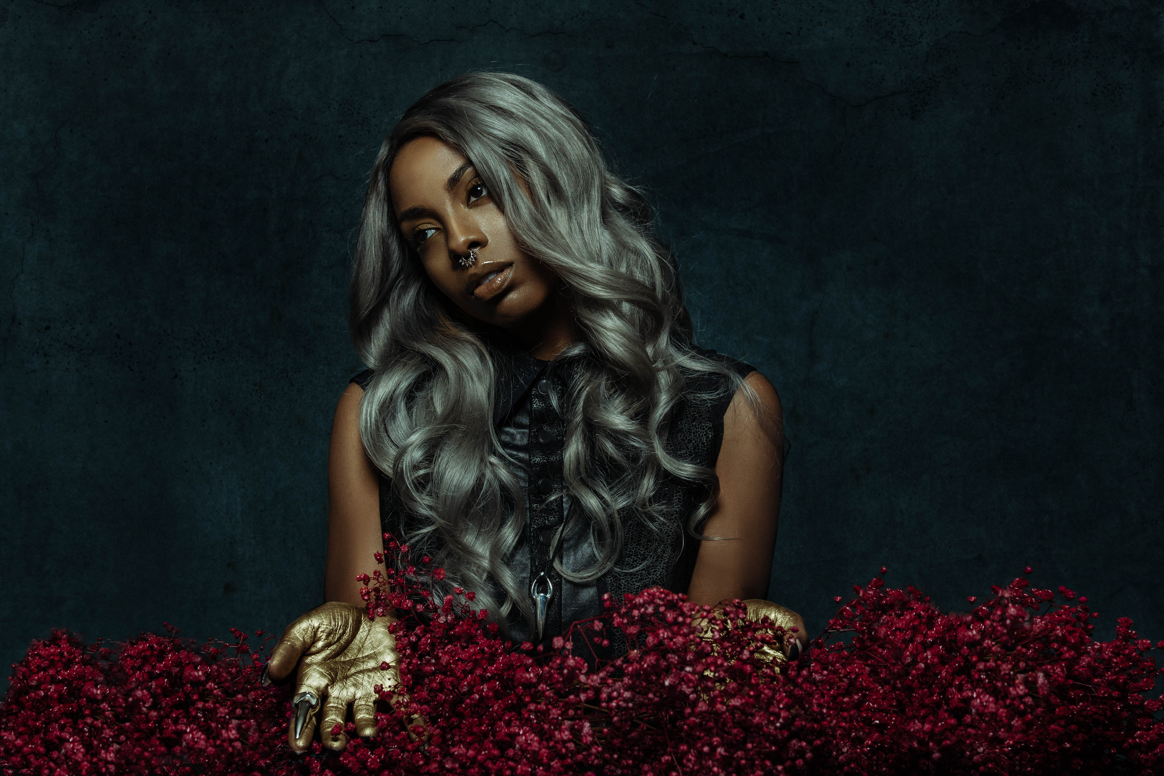 Editorial.